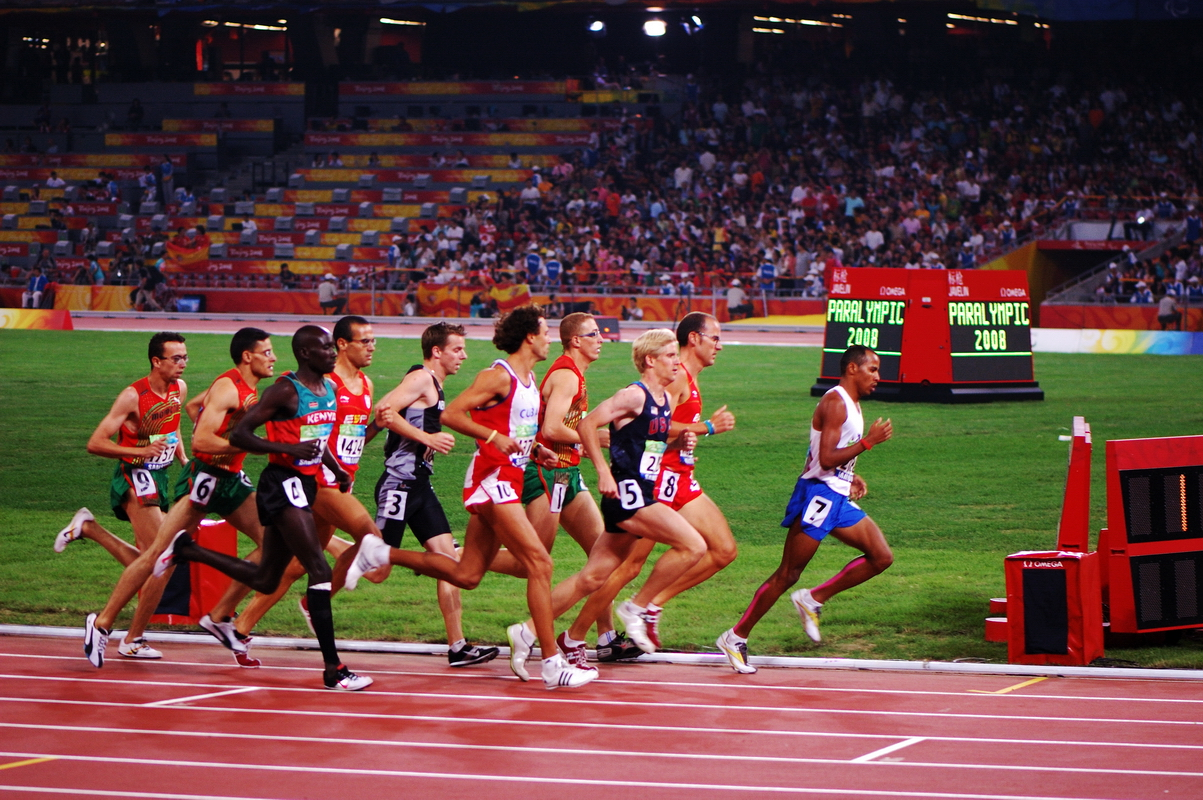 Athletics at the 2008 Summer Paralympics – Men's 1500 metres T13. Name of the runners here